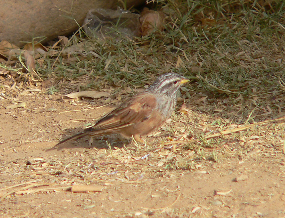 House bunting photographed in Iferuan, Aïr Mountains, Niger.